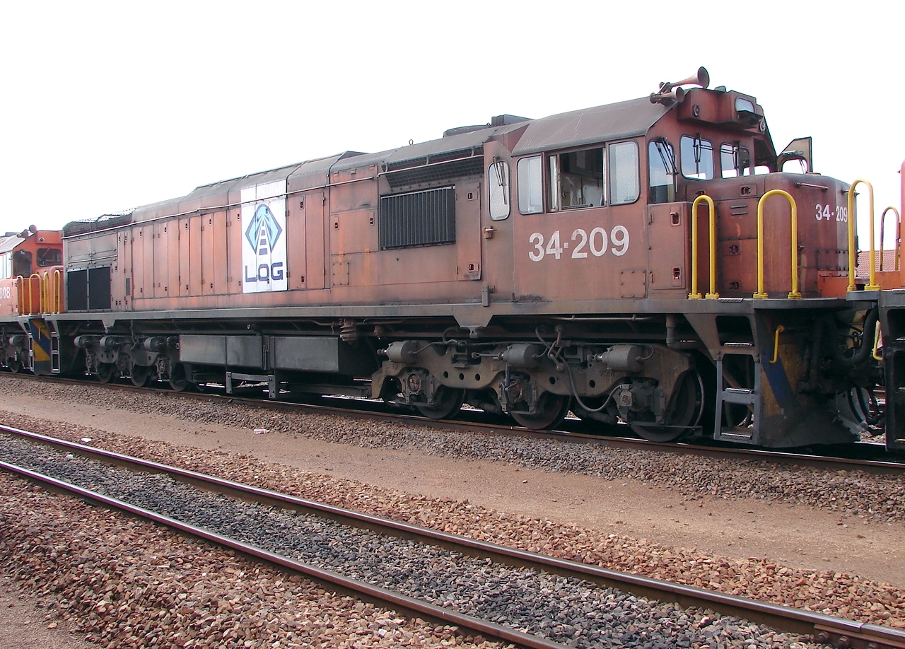 South African Class 34-200 34-209Builder's Number: EMD 37571 Type: EMD GT26MCLocation: Koedoespoort, Pretoria, Gauteng